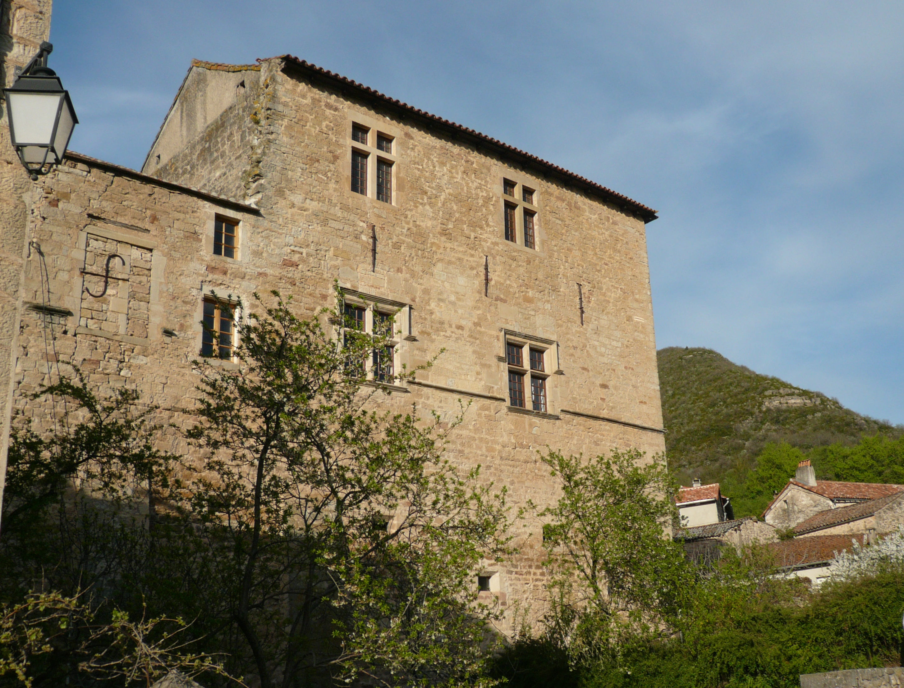 Castle of Versols, house of "de Roquefeuil-Versols" family.